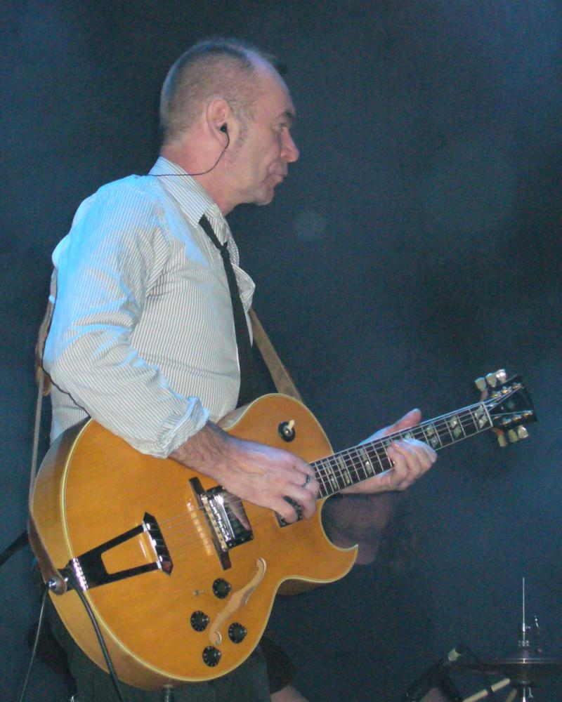 Wojciech Waglewski - founder and leader of band Voo Voo